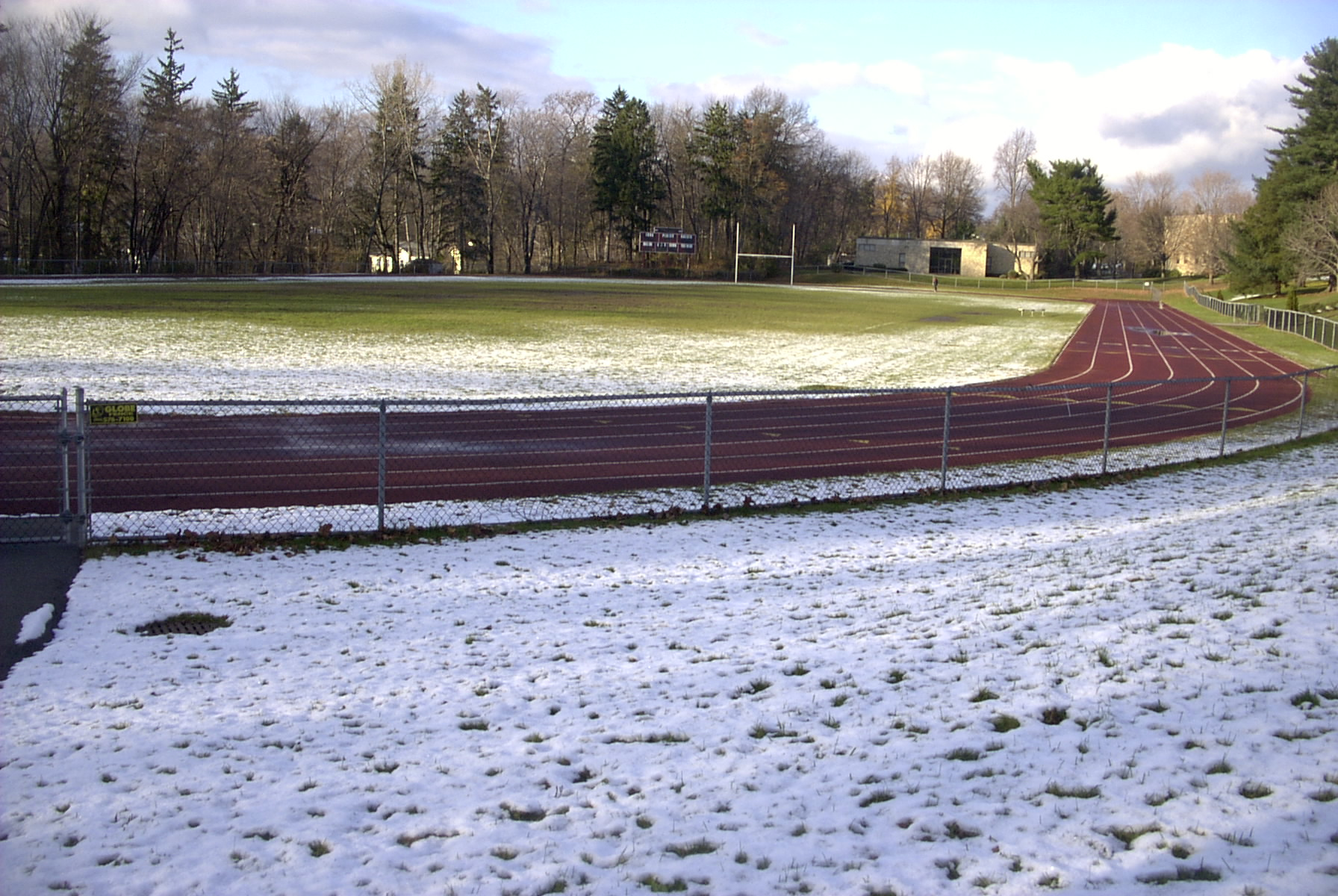 Iona Prep field on Thanksgiving, 2002. The data in the filename is incorrect.